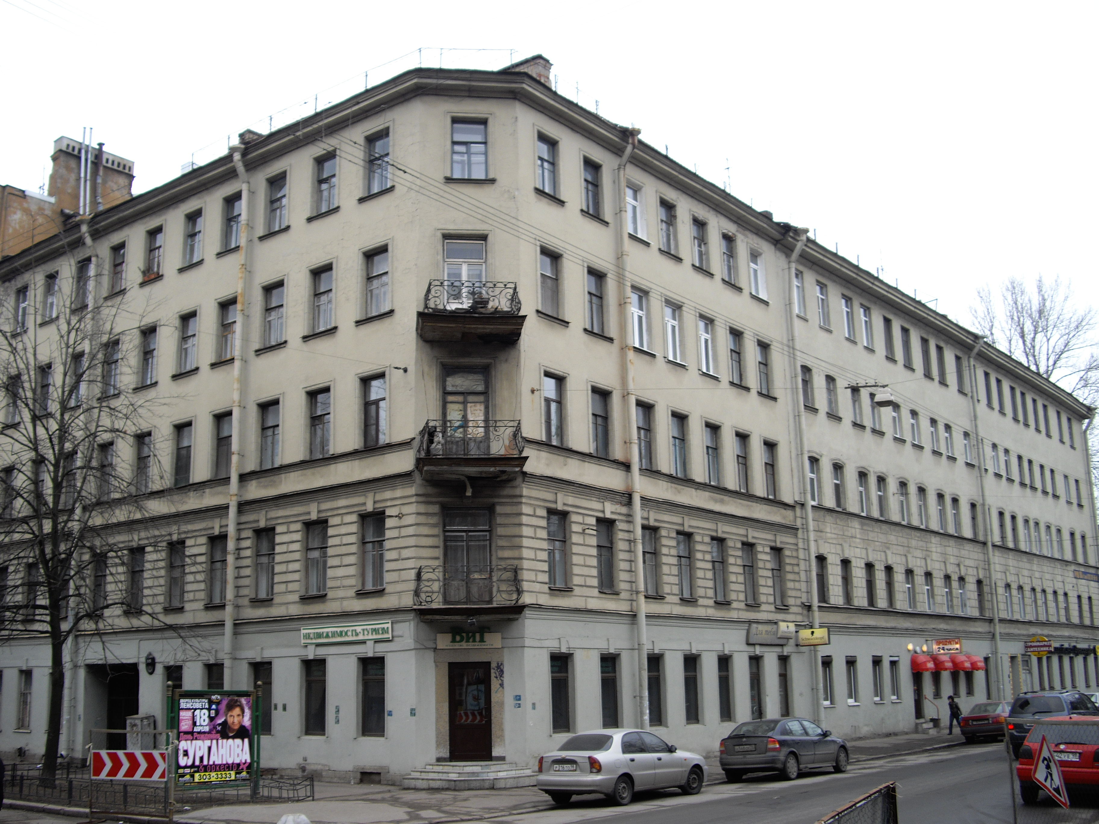 48, Maly Prospekt Petrogradskoi Storony (Small Av. of Petrograd Side), crossing at Kolpinskaya Street, Saint Petersburg, Russia. Architect E. S. Bikaryukov, 1902.